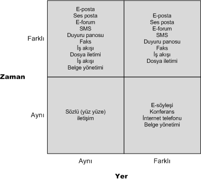 This file depicts the use of different groupware applications based on place and time.